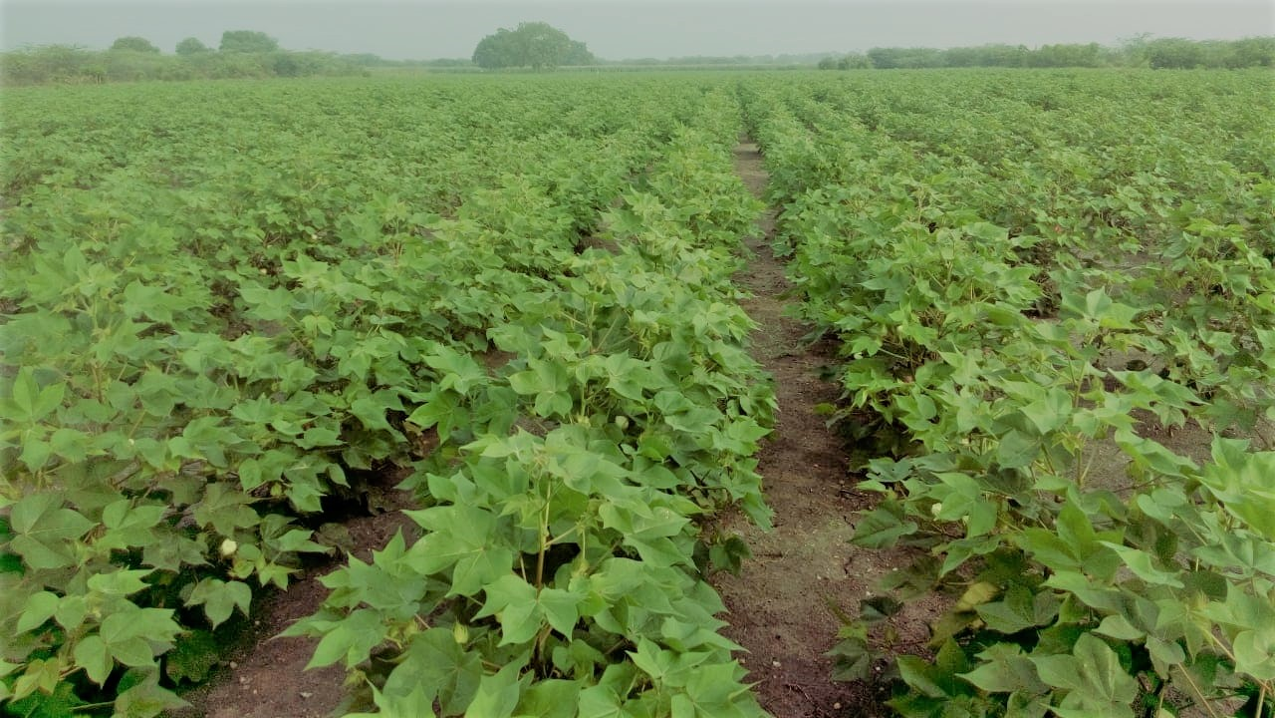 The cultivation of cotton crop in monsoon season in Sankarapandiapuram